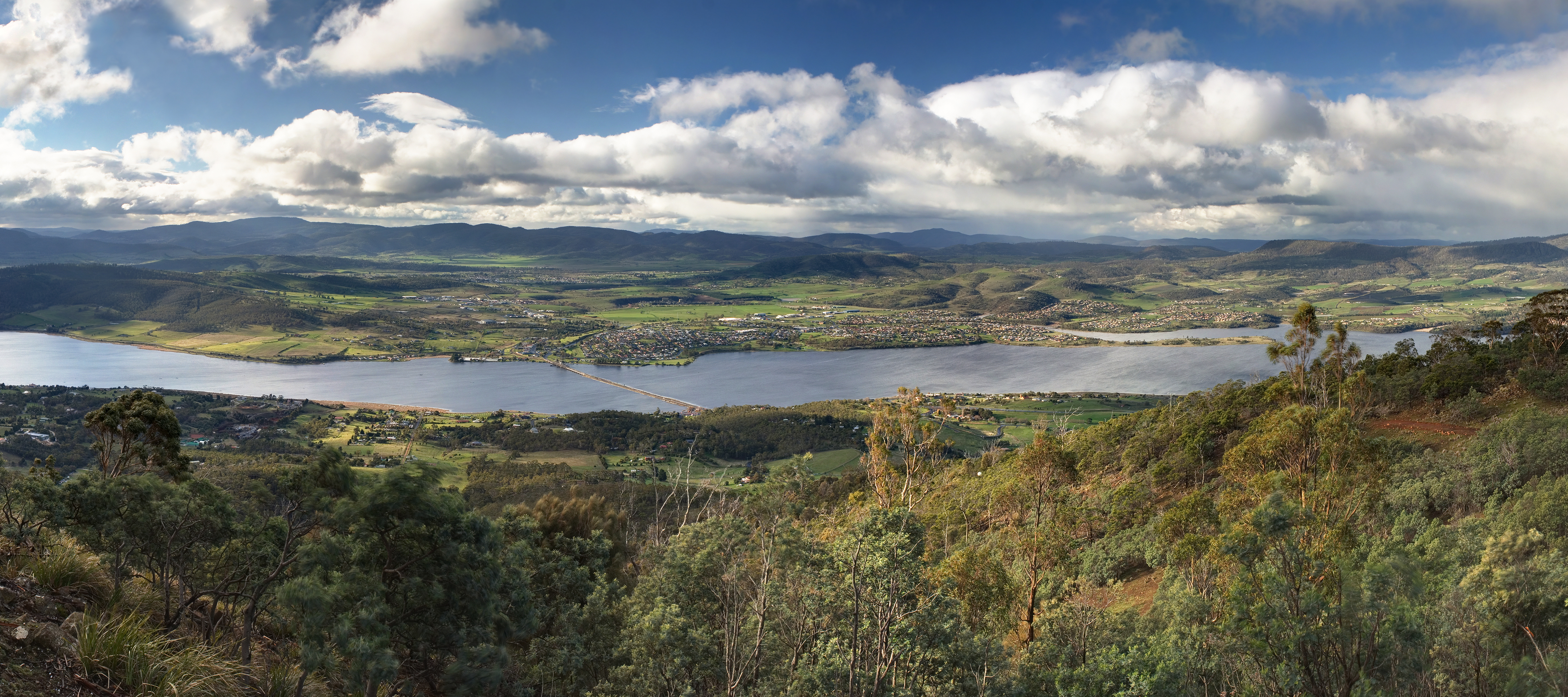 Bridgewater, Gagebrook, Brighton and the Derwent River from Granton Camera data Camera Canon EOS 400D Lens Canon EF-S 18-55mm f3.5-5.6 Focal length 55 mm Aperture f/9 Exposure time 1/50, 1/200, 1/800 s Sensivity ISO 100